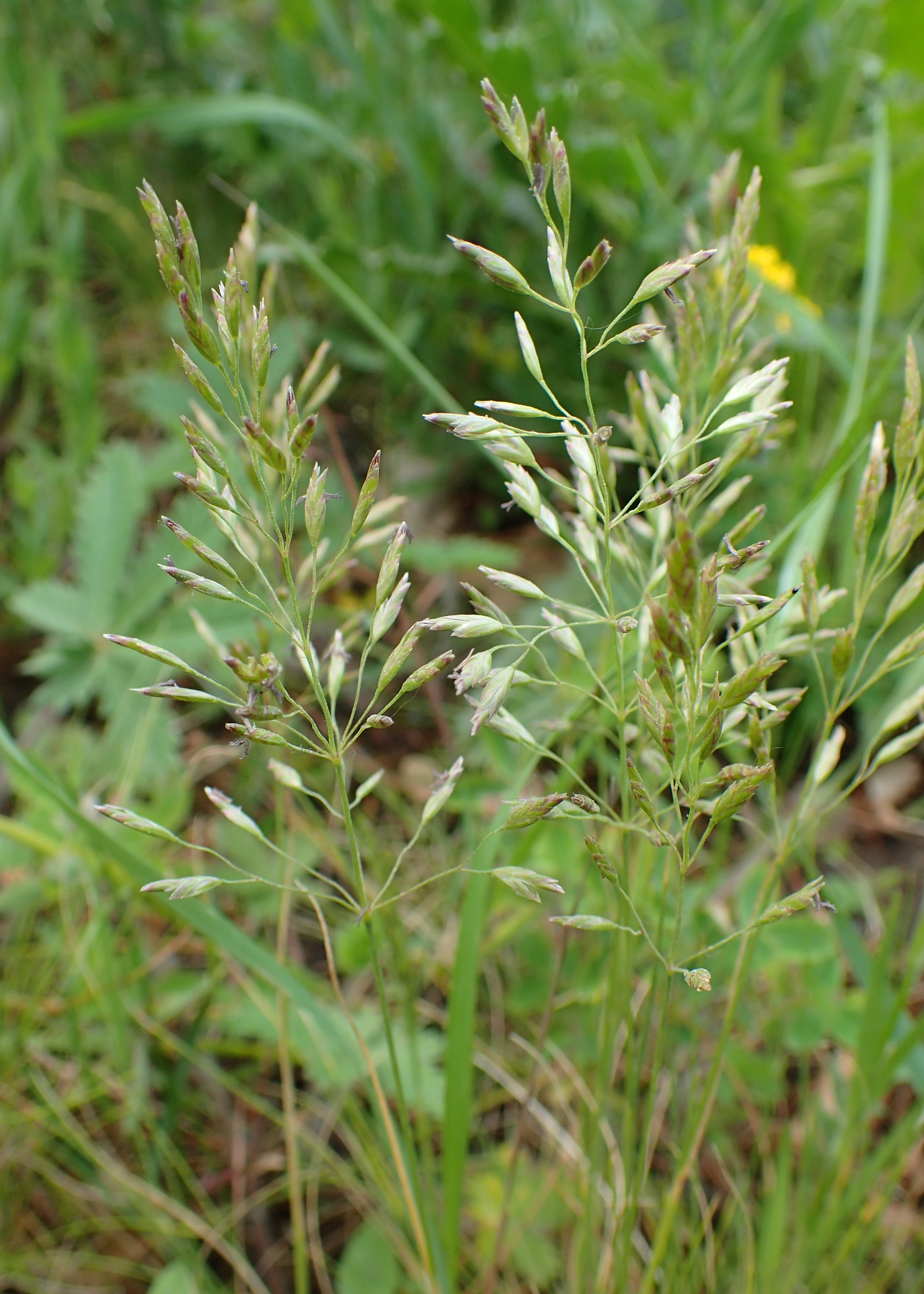 Poa variegata (labeled as Bellardiochloa variegata) Poaceae in the Botanischer Garten, Berlin-Dahlem